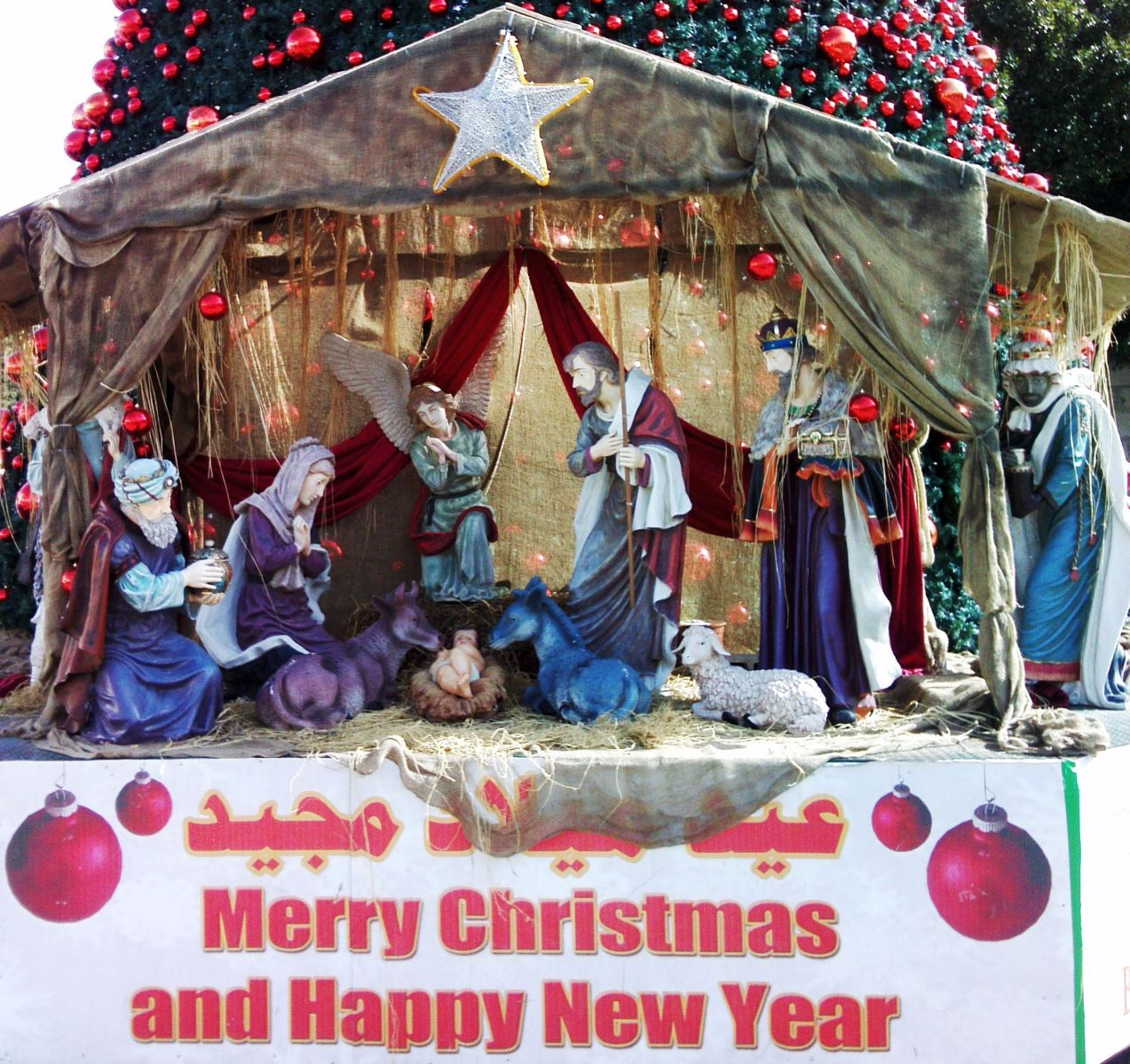 in Bethlehem, Church of the Nativity